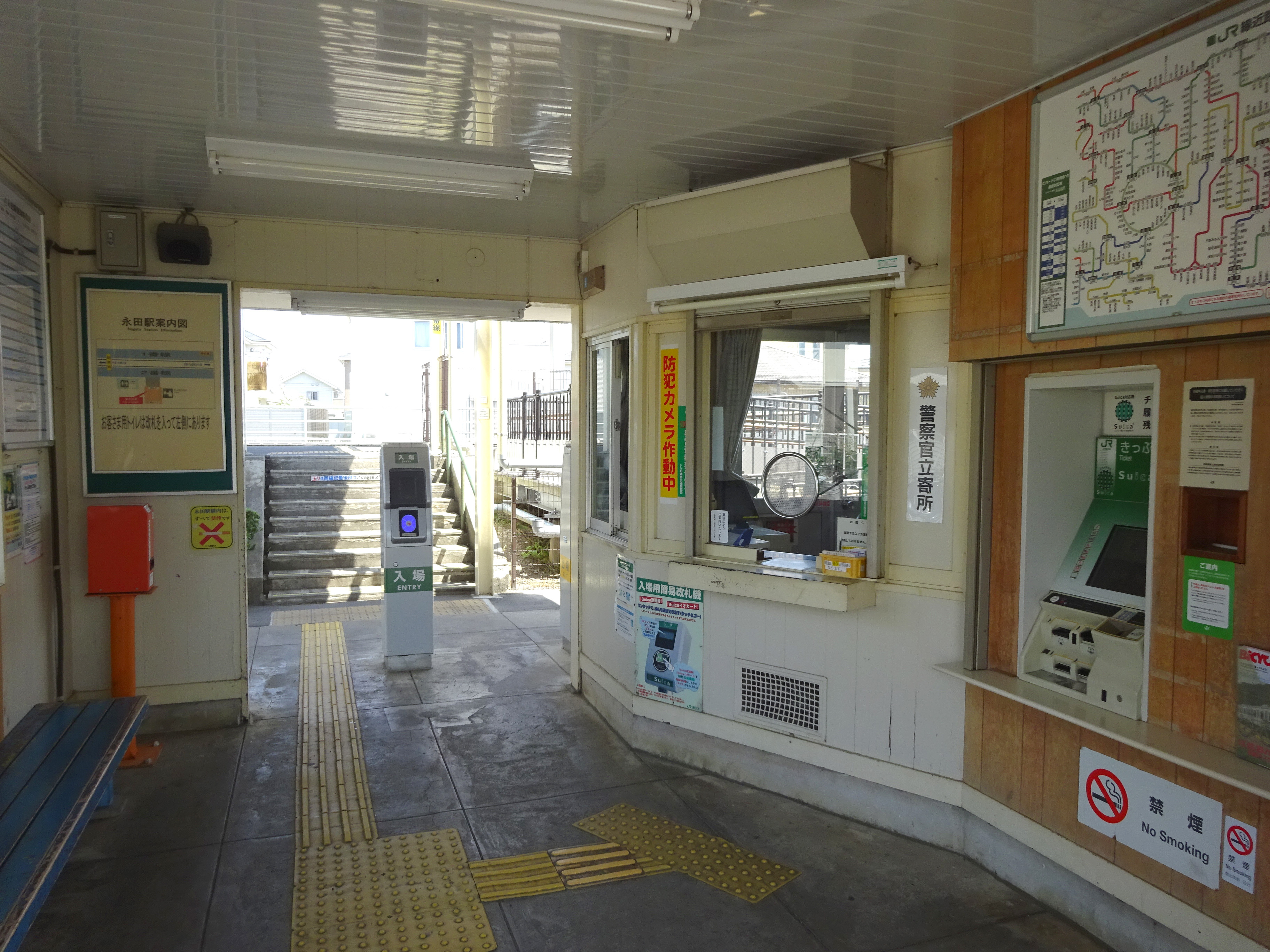 Ticket barriers of Nagata Station (Chiba)